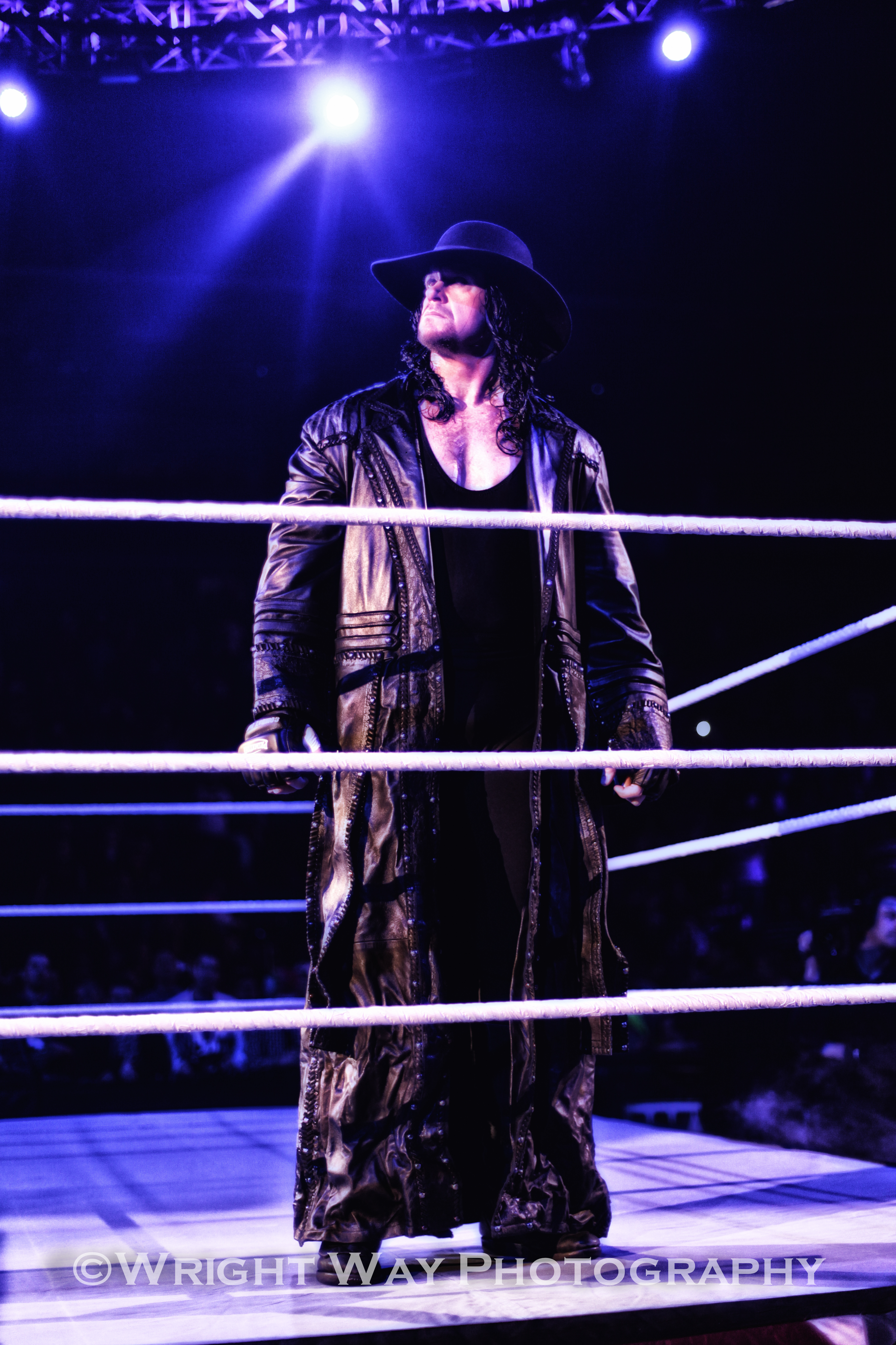 "The Undertaker" Mark Calaway in the ring.